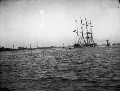 The barque 'Talavera' (1882) on the Thames being towed by a steam tug. Reproduction ID: H0482 Maker: Unknown